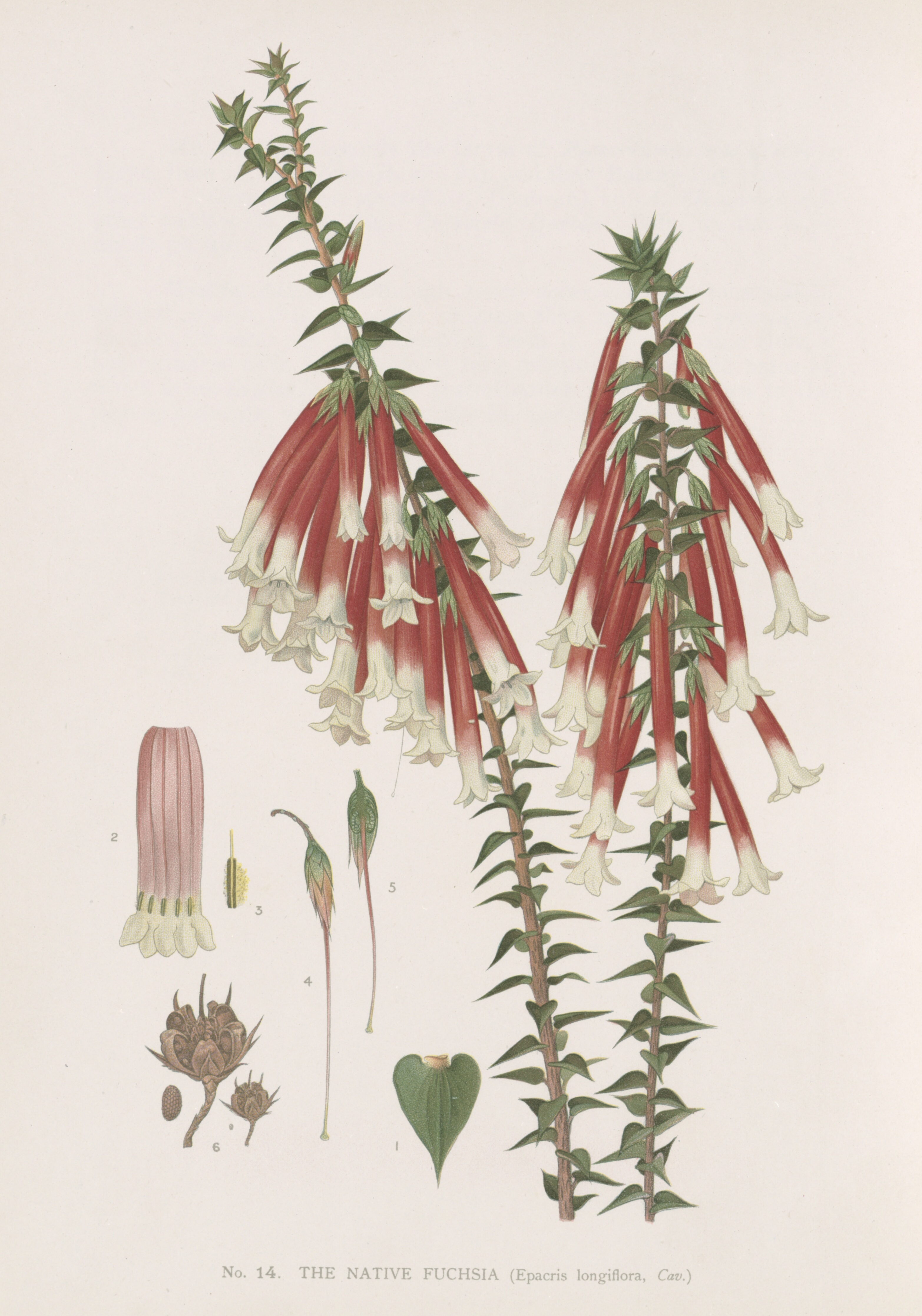 Epacris longiflora (Native Fuchsia) From: The Flowering Plants and Ferns of New South Wales - Part 4 (1896) by J H Maiden. NSW Government Printing Office.